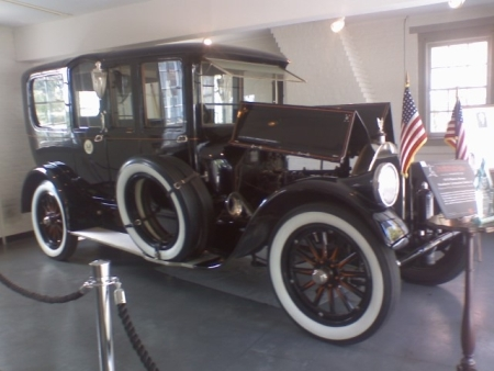 U.S. President Woodrow Wilson's 1919 Pierce Arrow "Series 15", which resides in his hometown of Staunton, Virginia. Taken on author's phone.